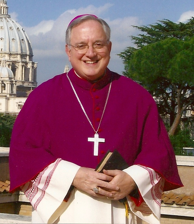 Roman Catholic Bishop William Patrick Callahan, OFM Conv, MDiv